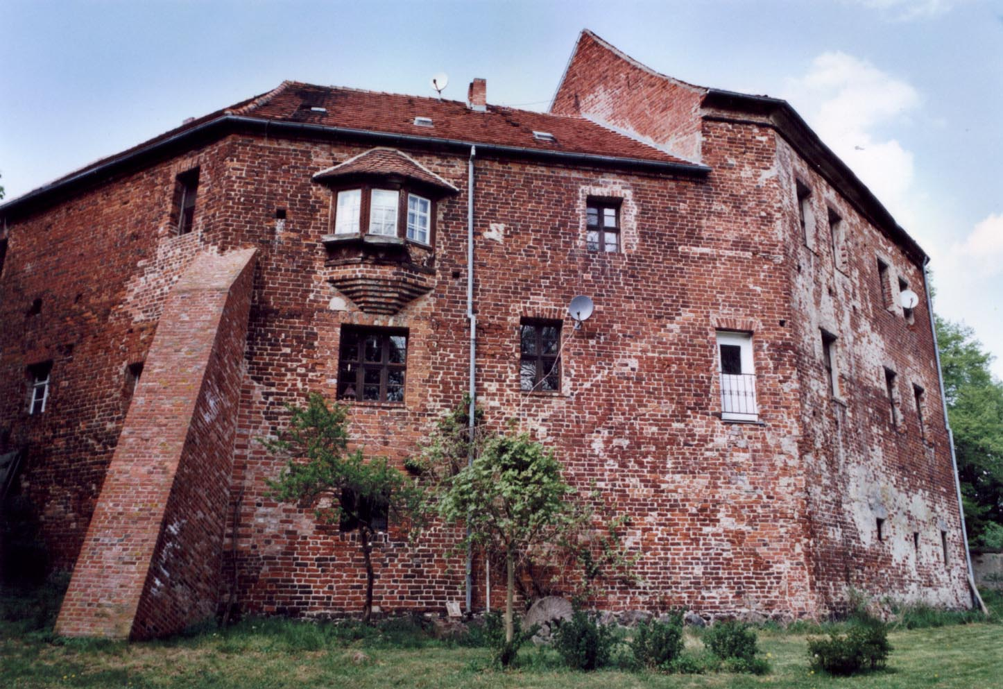 Castle of Goldbeck, southern walls